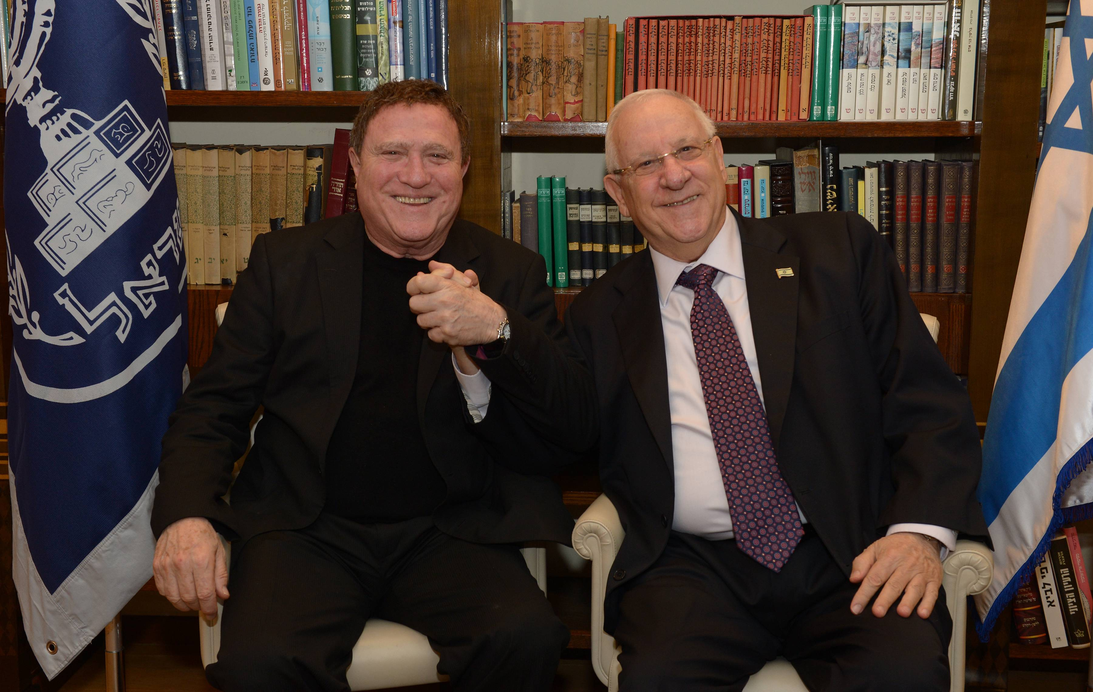 נשיא המדינה ראובן רובי ריבלין נפגש עם הזמר יהורם גאון בלשכתו במשכן במלאות לו 75 שנים הנשיאצילום חיים צח / לע"מphoto by Haim Zach / GPO